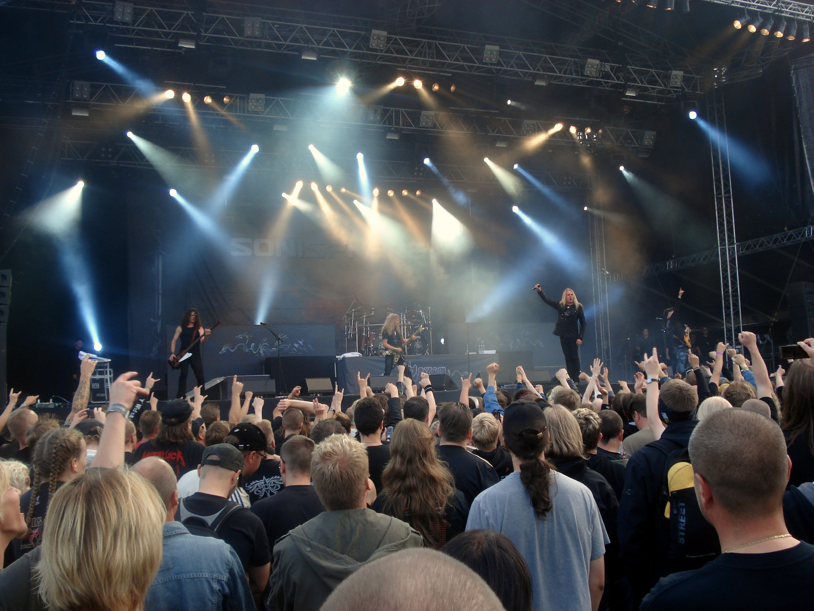 Saxon performing at Sonisphere Festival in Kirjurinluoto, Pori, Finland.